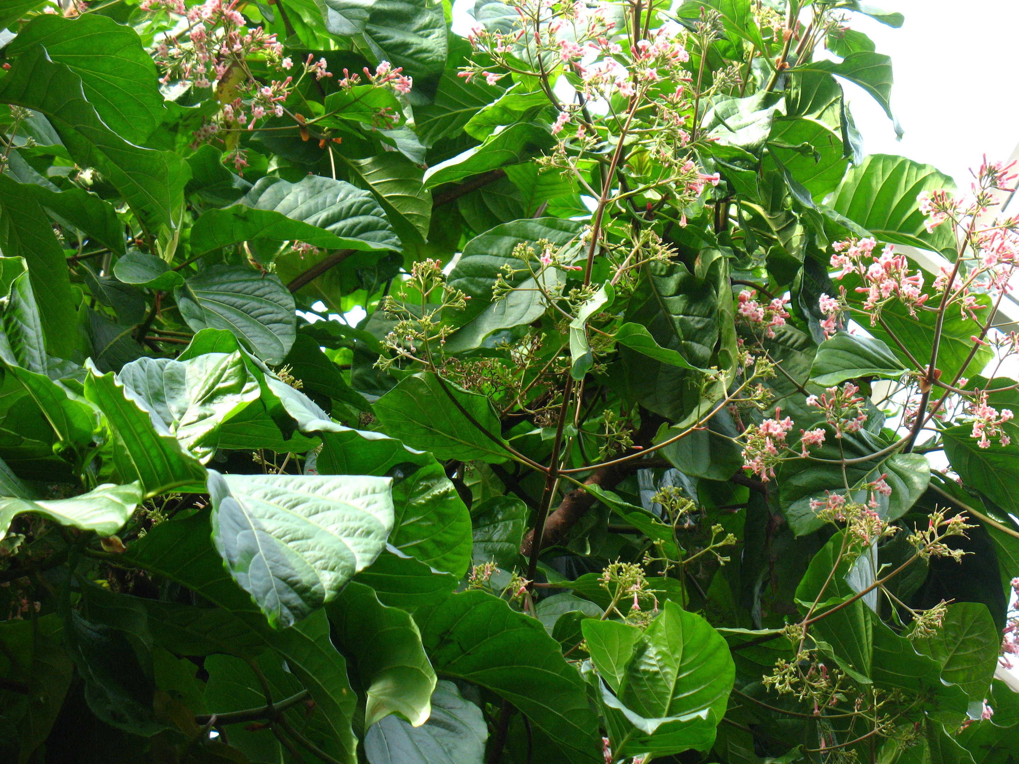 Flowering quinine tree, Cinchona pubescens, at the New York Botanical Garden.